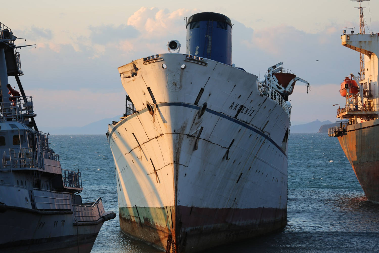 The Akdeniz during its scrapping at Aliağa on January 30, 2016.